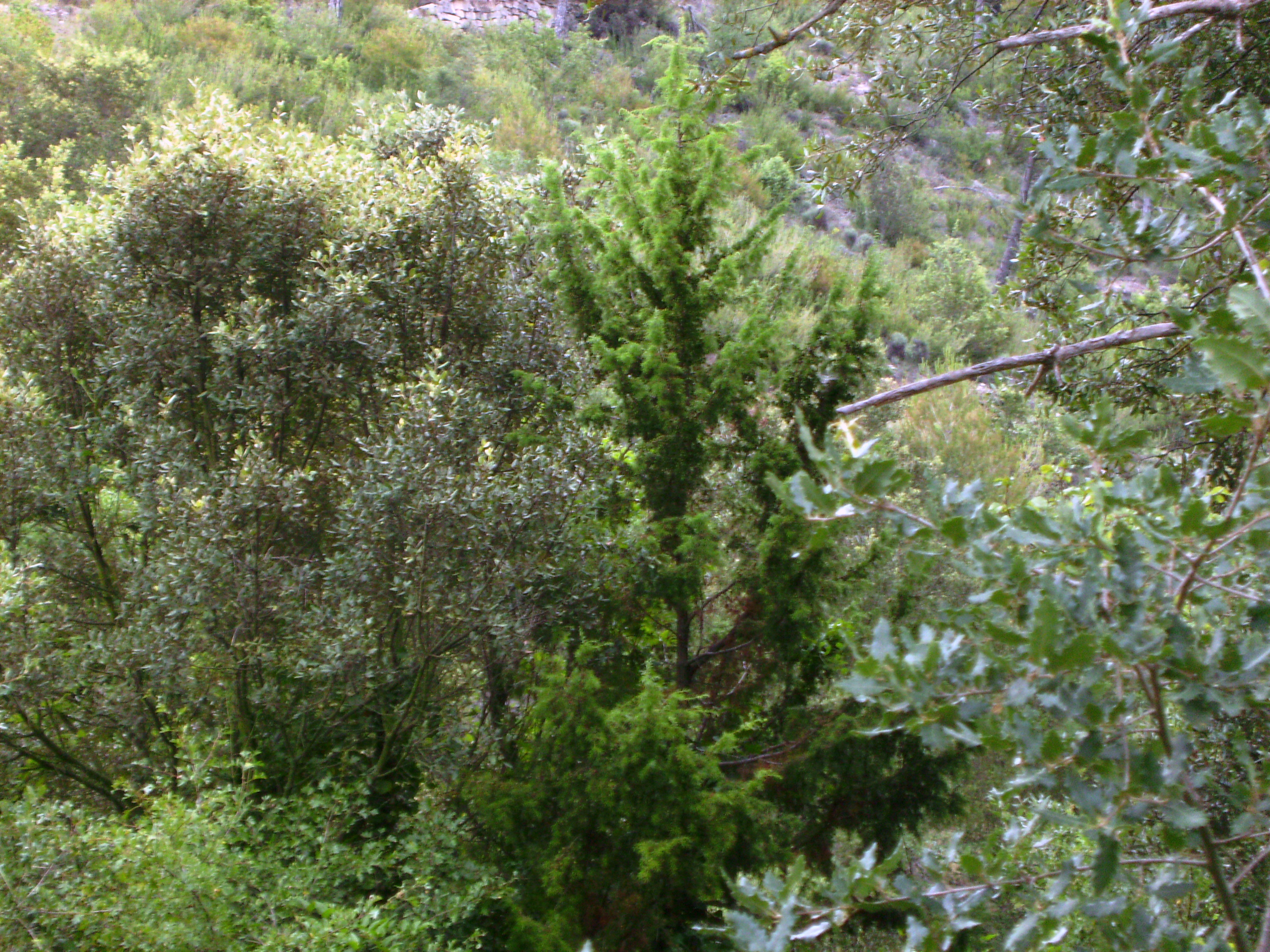 Juniperus oxycedrus normally a bush but tree like, Castelltallat, Catalonia